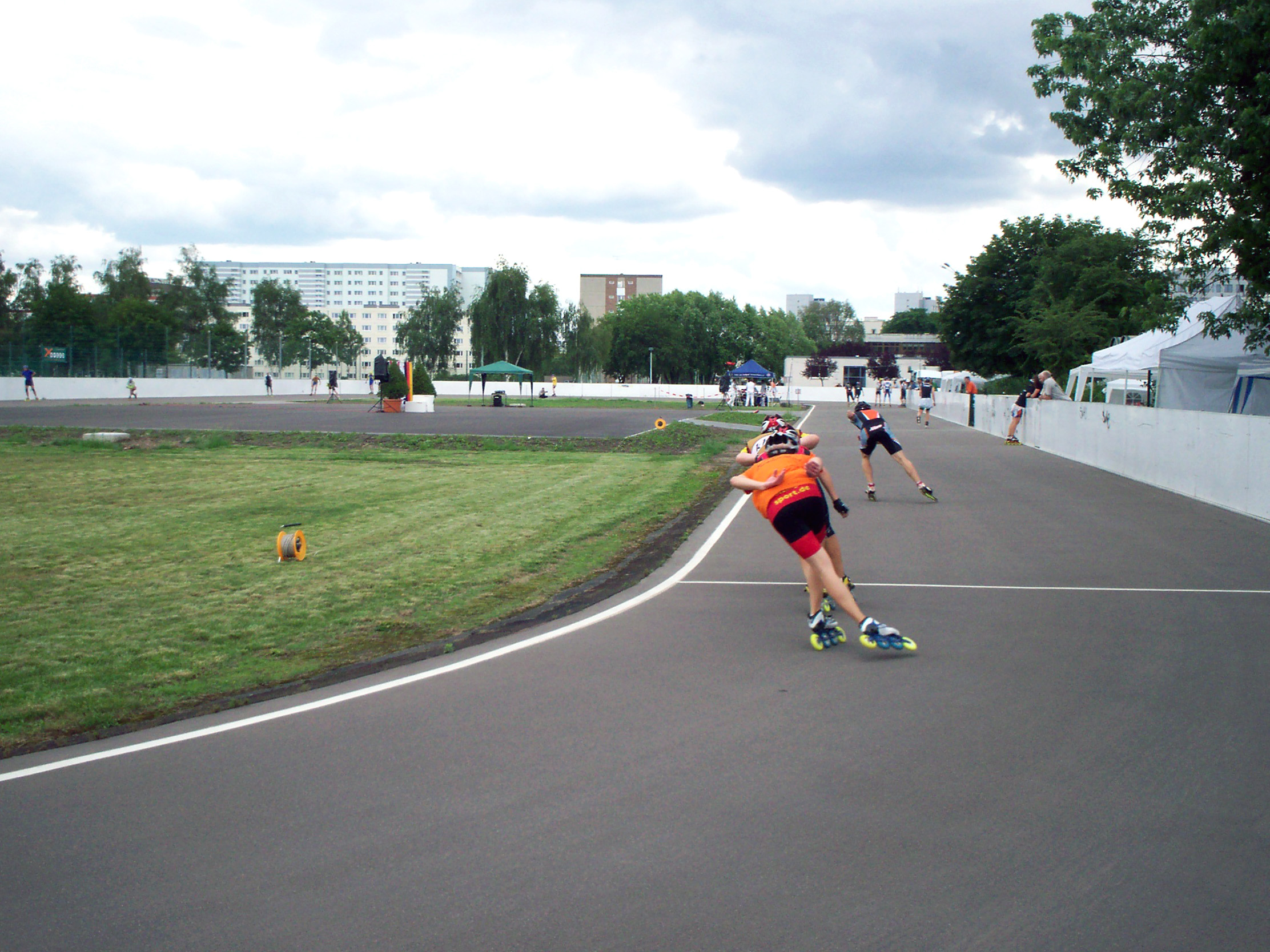 Inline speedskating track in the Sportforum Berlin, germany. German inline speedskating track championchip 2007 (Warm up).